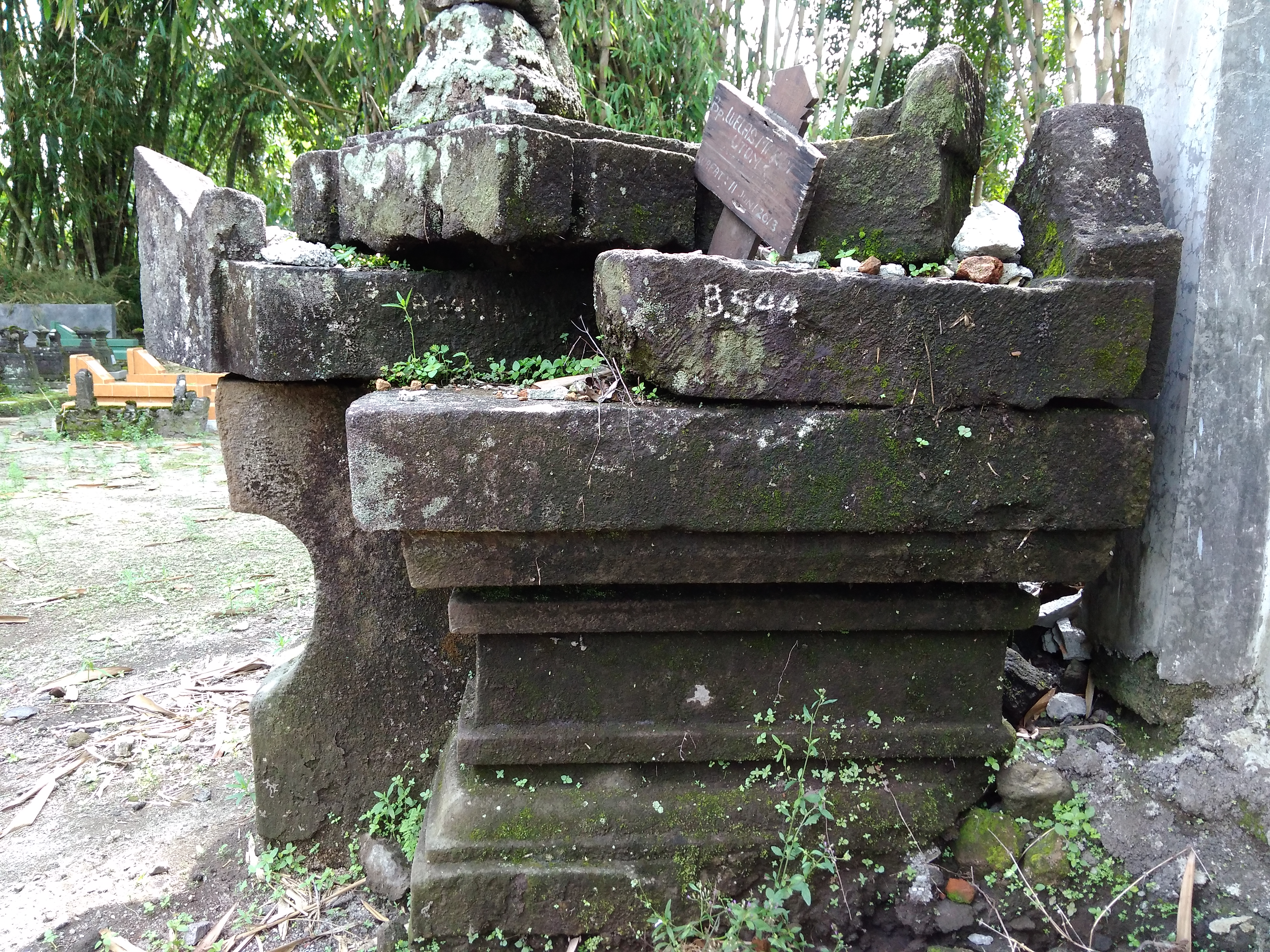 Unfinished yoni in Kadisobo Site